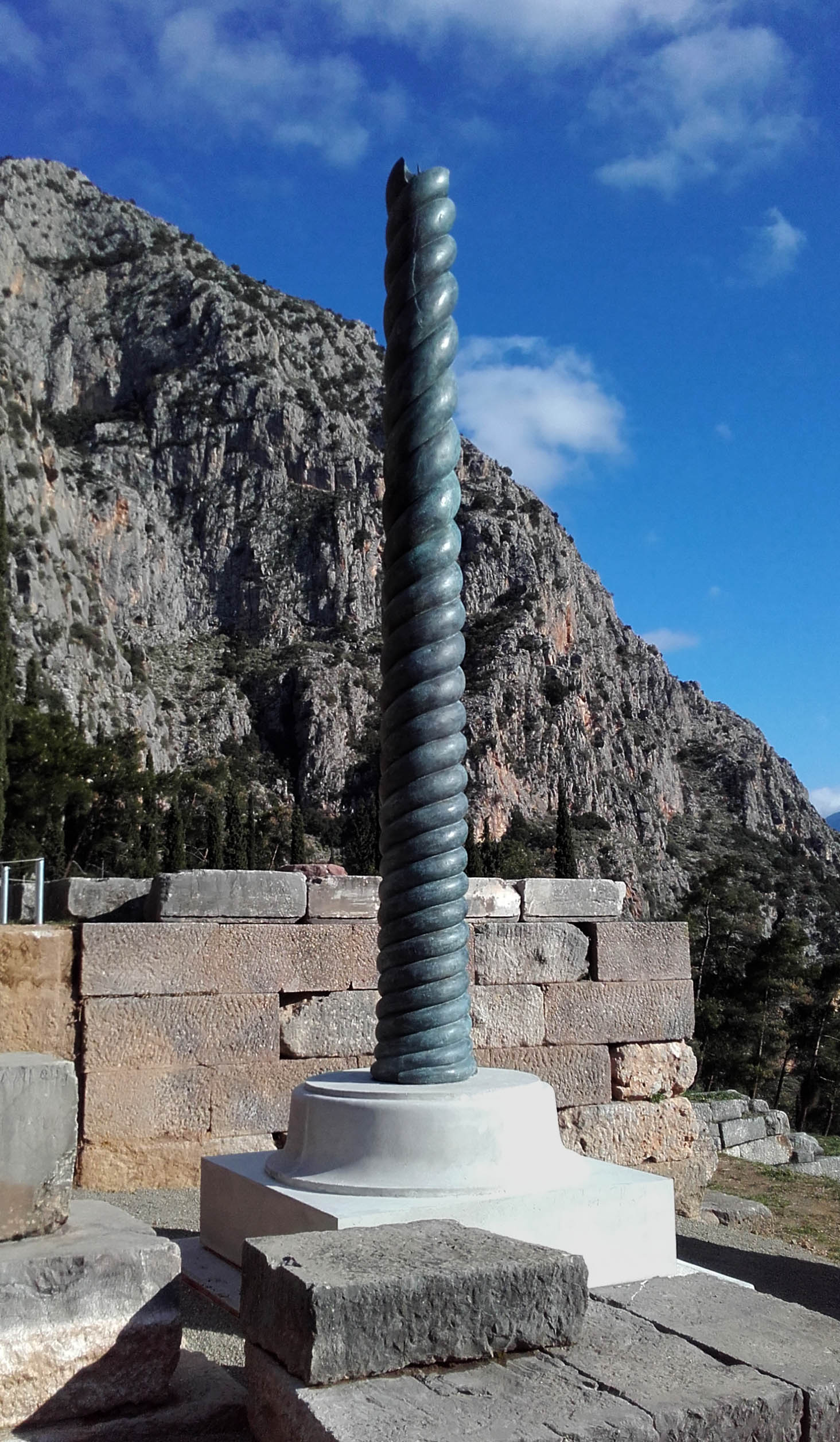 Replica of the Serpent Column erected at Delphi in december 2015. The original still stands in Istanbul. For more info : The «Serpent Column» will once again adorn Delphi and Replica of 'Serpent Column' to be erected at Delphi